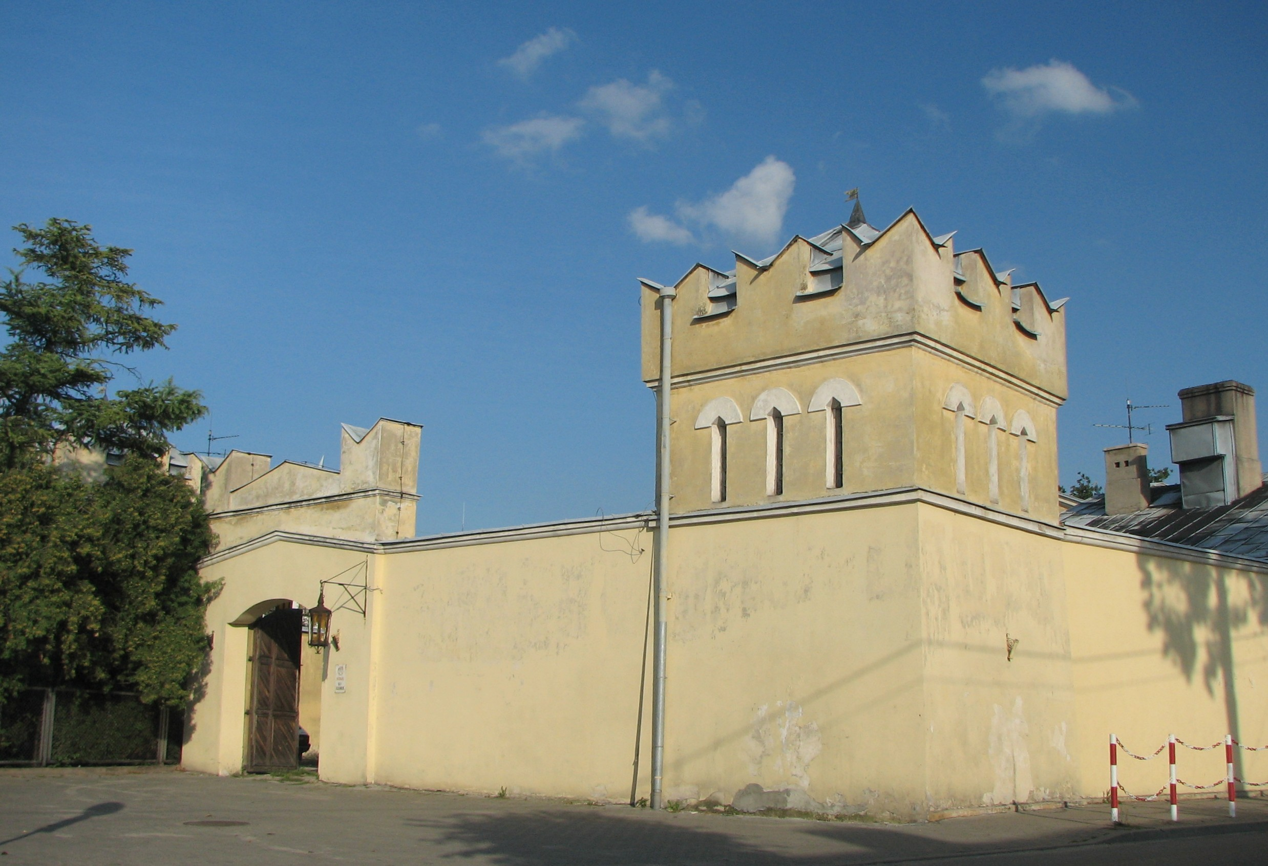 Monasterial building complex. Presently, The School of Music in Bielsk Podlaski, Poland